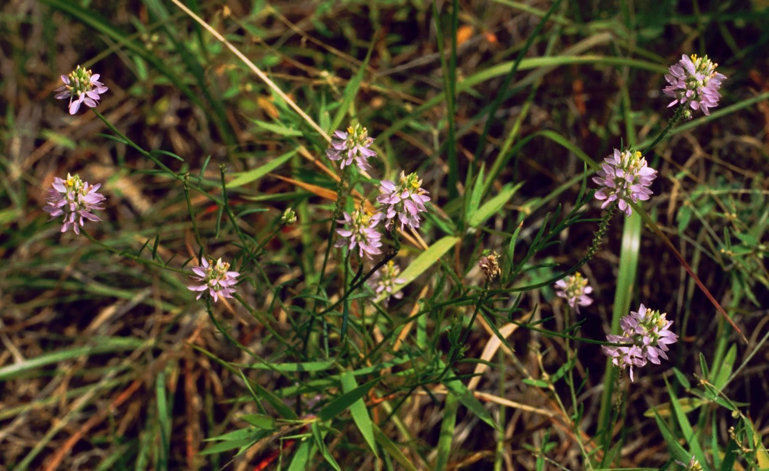 Polygala curtissii, Kreuzblumengewächse (Polygalaceae) – USA, Georgia: Stone Mountain ENE Atlanta (DeKalb County)